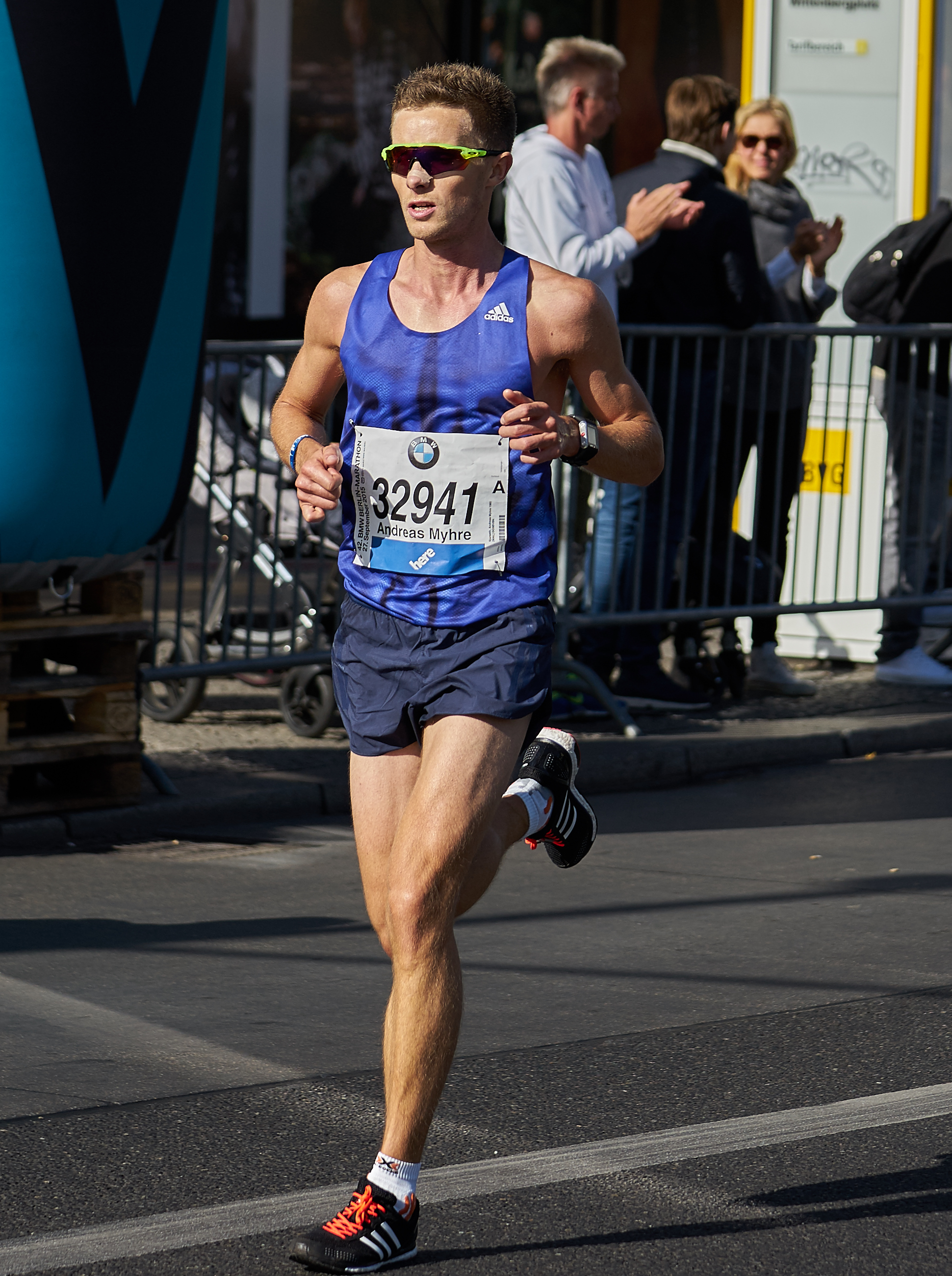 Berlin Marathon 2015 Sjurseth, Andreas Myhre (NOR)